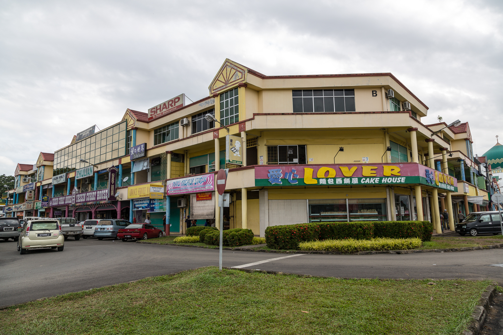 Tawau, Sabah: Shops in the northeast corner of Sabindo Square, close to parking lots of the mosque